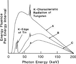 X-ray spectra with and without filtration A = Al (aluminium) filter B = Al + Sn (tin) filter C = Al + Sn + Cu (copper) filter